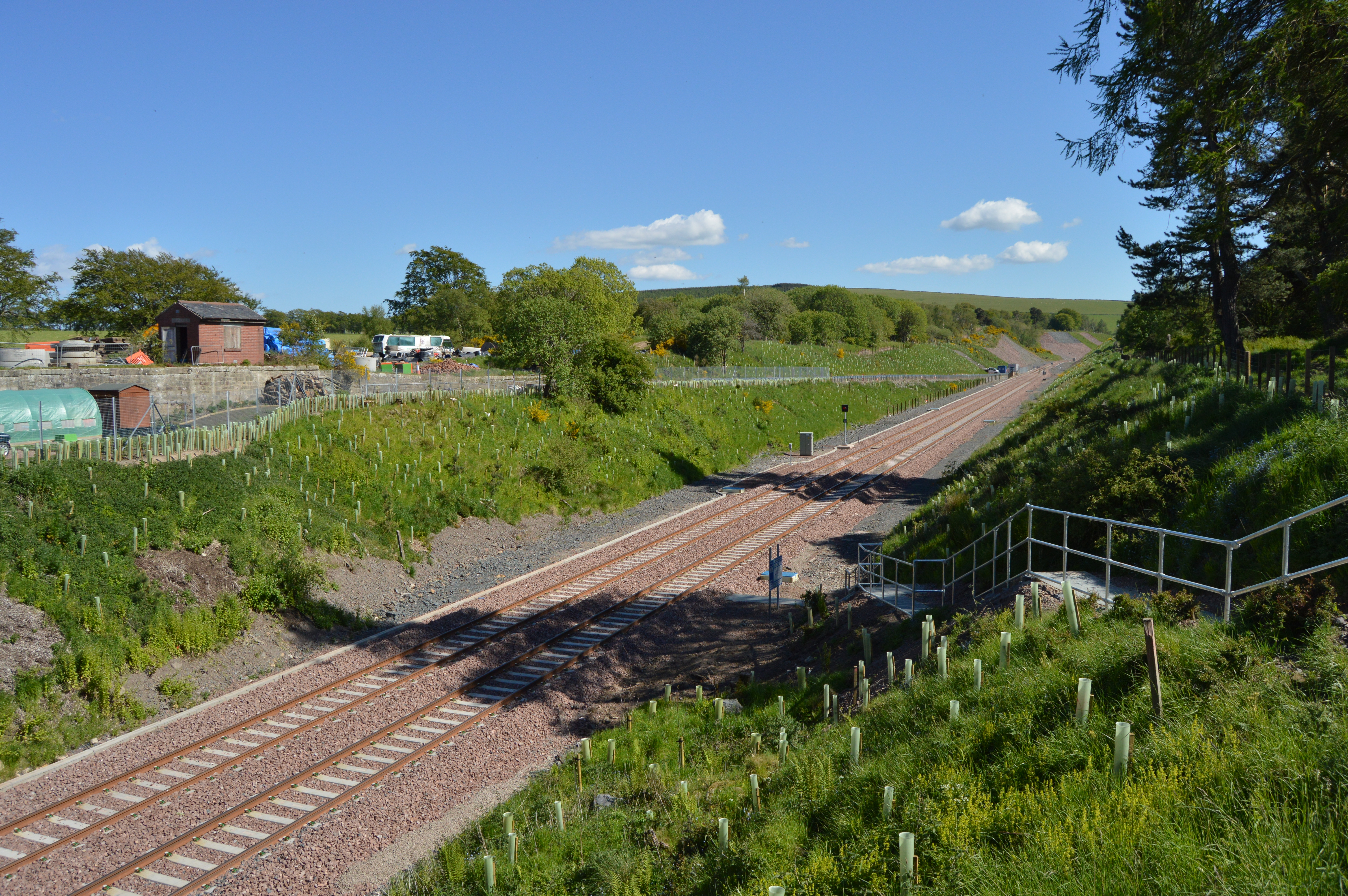 The former location of Tynehead railway station on the Waverley Route between Edinburgh and Carlisle. Now the site is Tynehead Junction, where the new Borders Railway turns from double to single track.